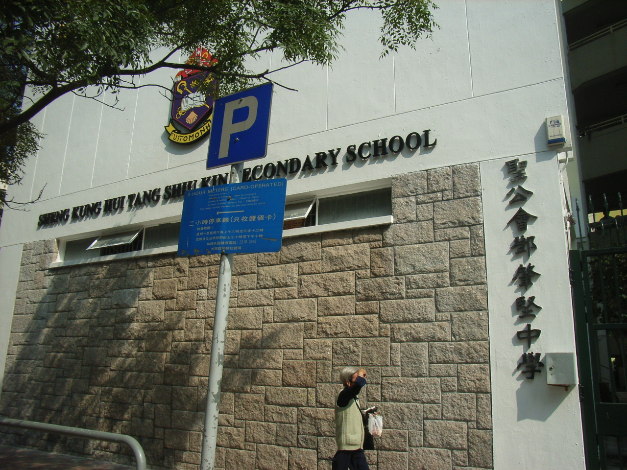 Around the Oi Kwan Road, Wan Chai, Hong Kong Author:Wenzi MHTI